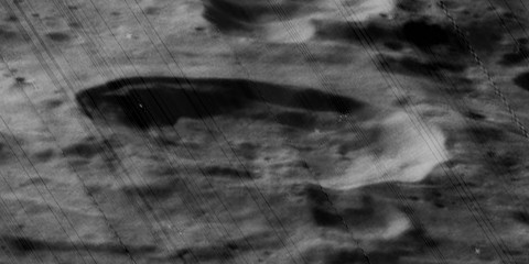 Oblique view of Dirichlet, on the far side of the moon, facing west. Dark diagonal lines are artifacts of reprocessing.